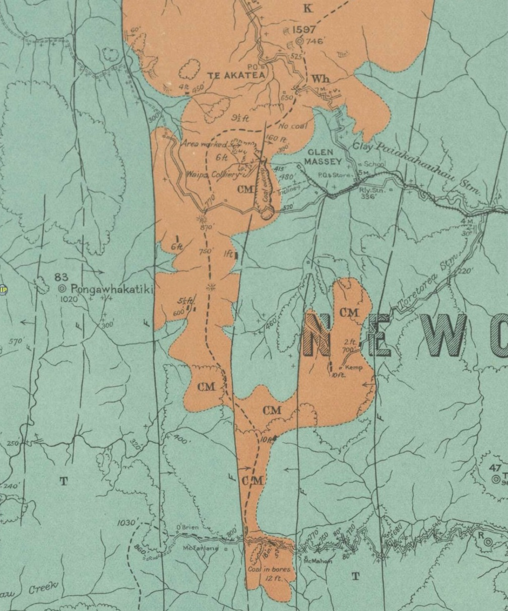 CM coal measures, K Te Kuiti beds, L lower Jurassic, T upper Jurassic, WH Whaingaroa beds